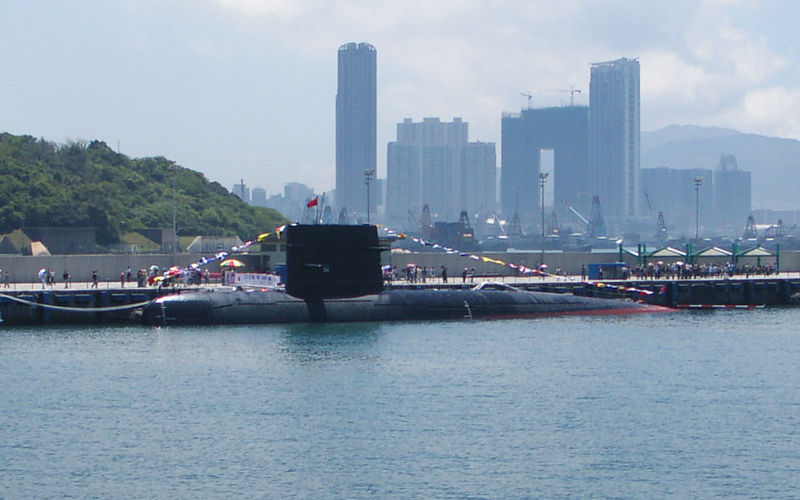 Photo taken by myself (Kazec). Song Class Submarine No. 324 during PLAN visit in Hong Kong, May 2003